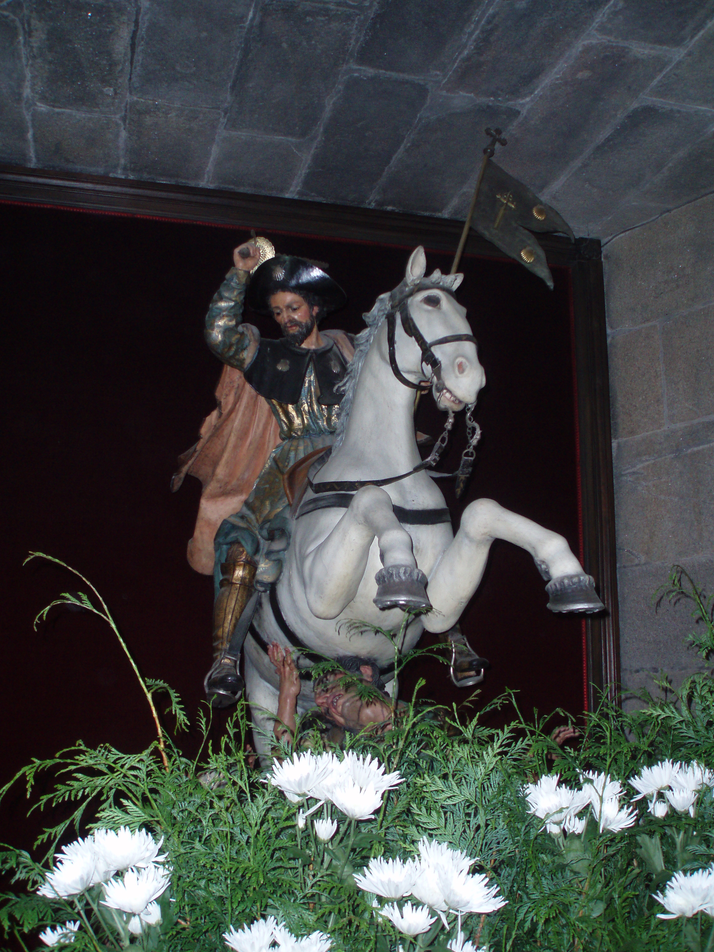 Cathedral of Santiago of Compostela, in Galicia. (Spain).